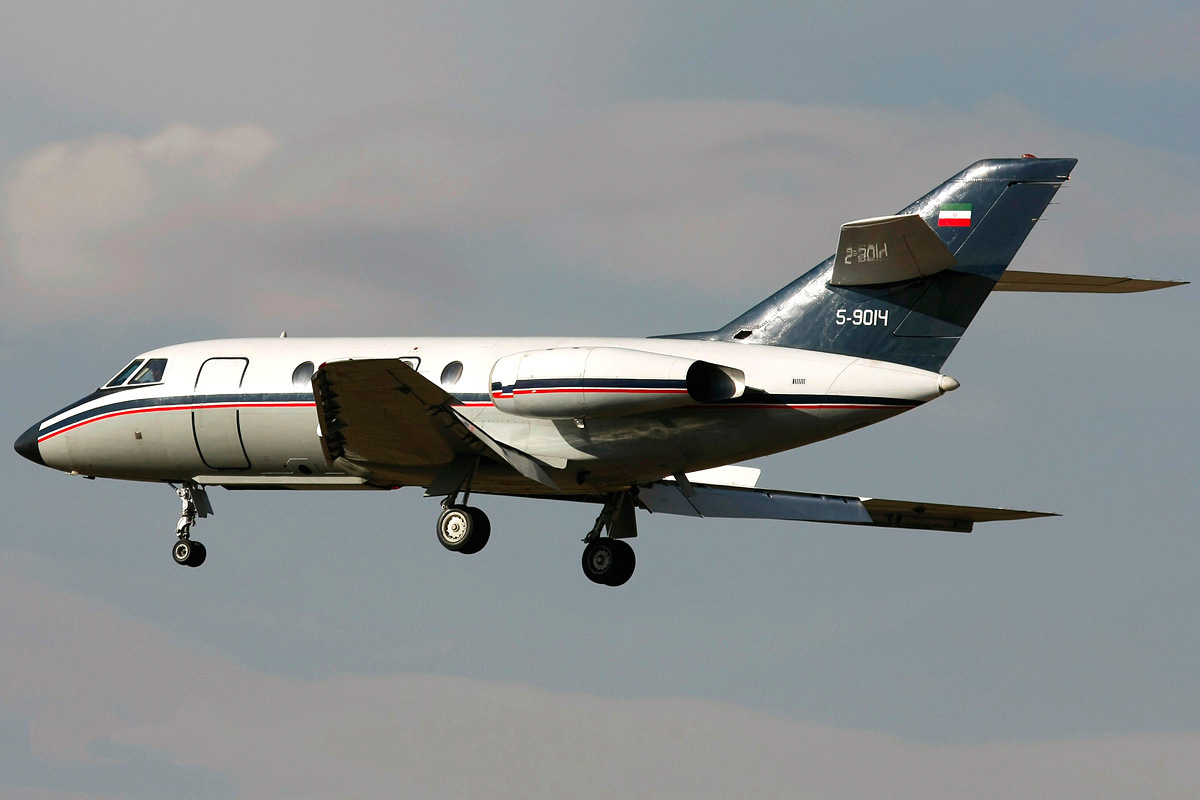 An IRIAF Dassault Falcon 20 lands at Mehrabad International Airport.